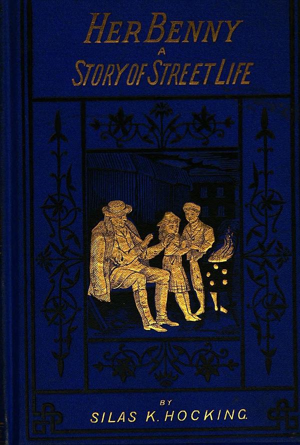 Cover of an early hardback edition of 'Her Benny, by Silas K. Hocking, published by Frederick Warne and Co., in 1879.